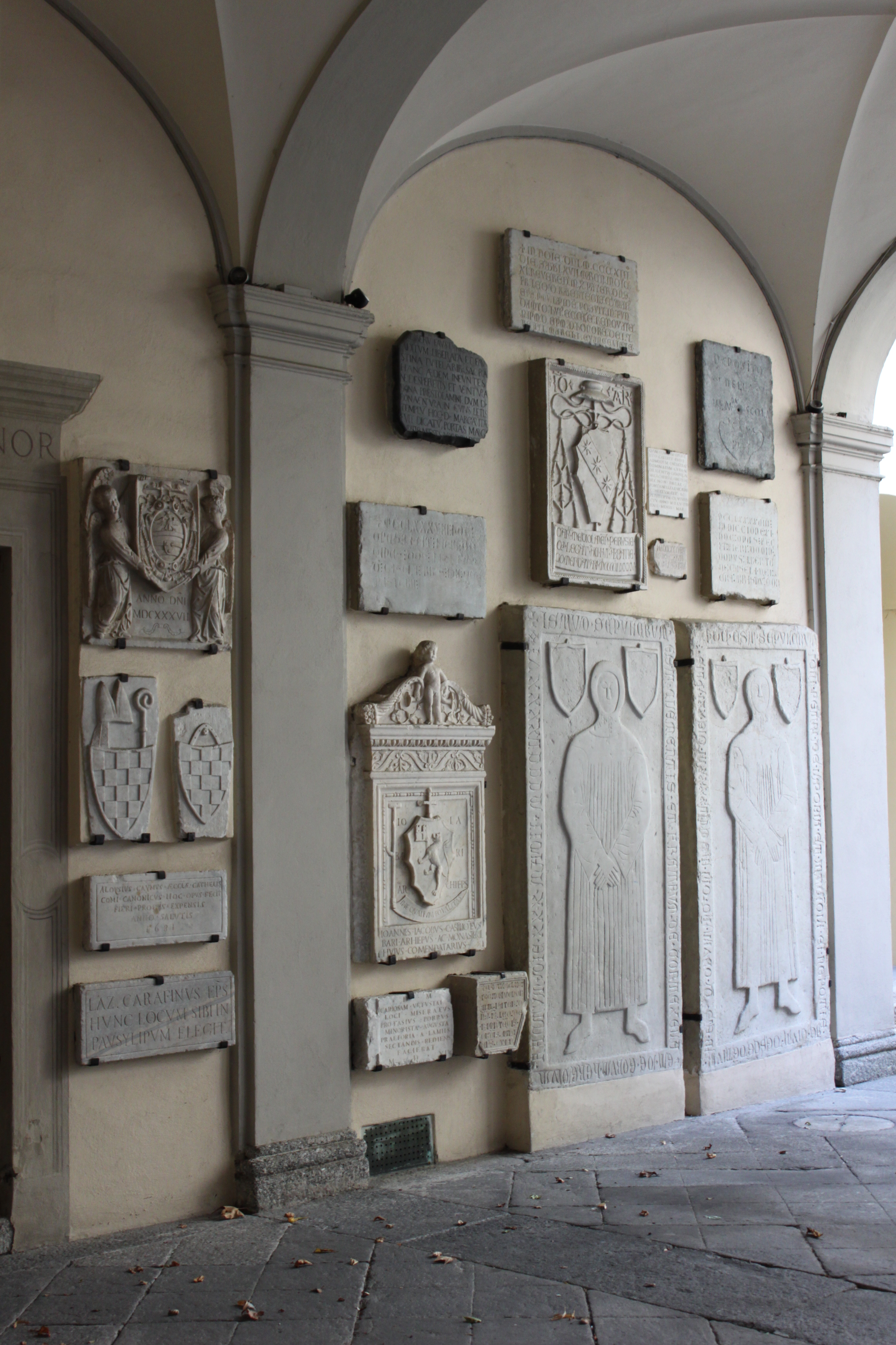 Como, Italy